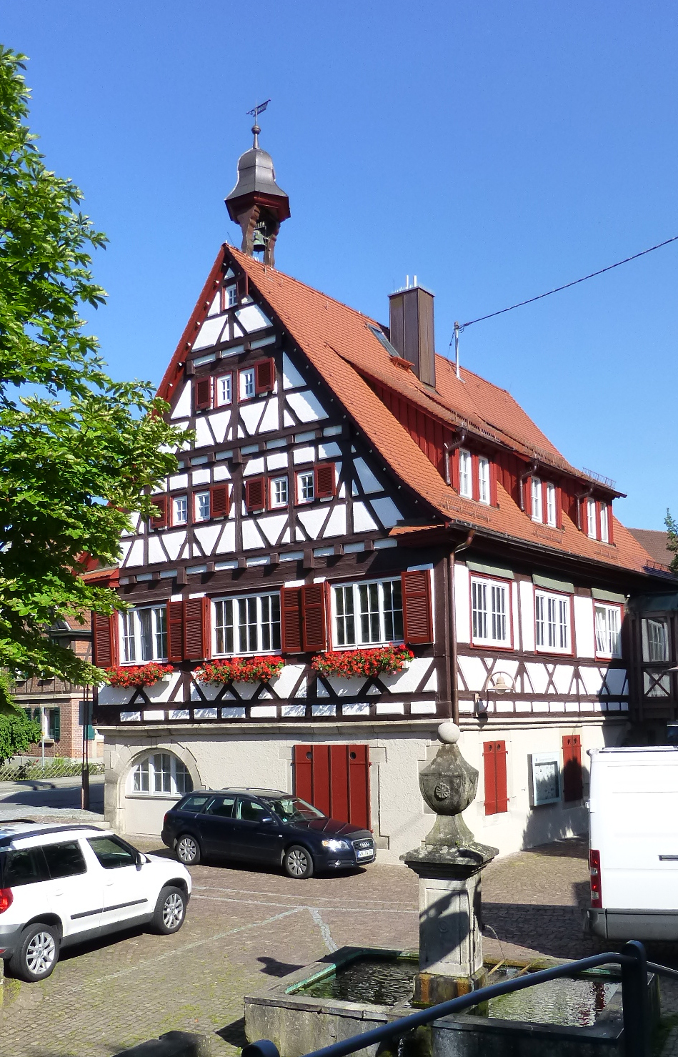 Weissach im Tal Timber house,(Old Town Hall) fountain in foreground, Baden-Wurtemberg, Germany.